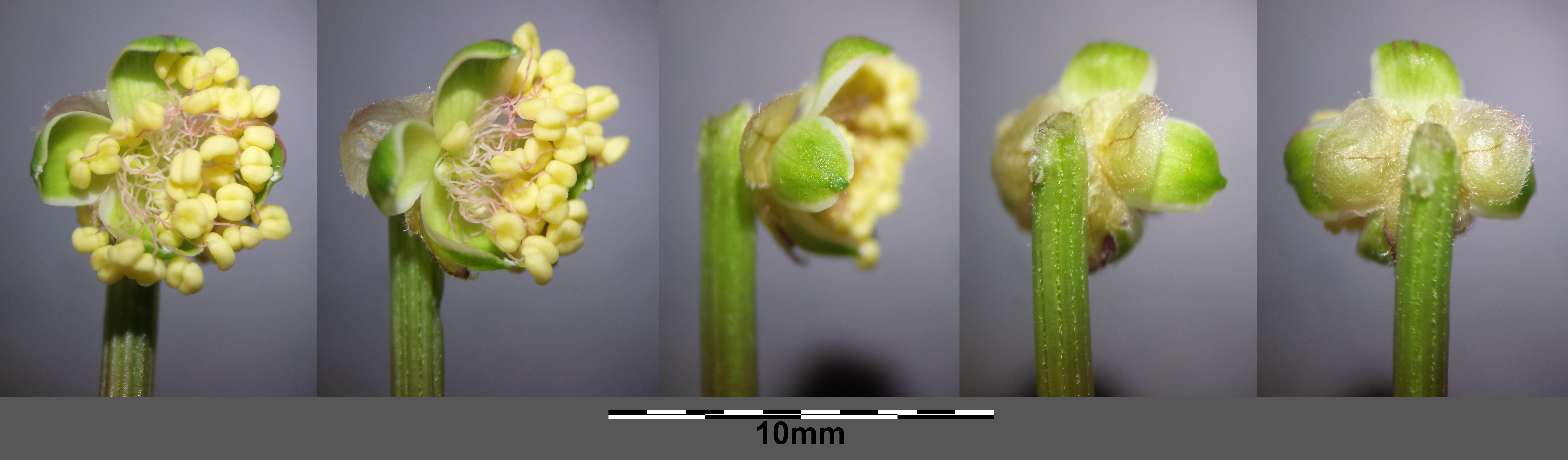 ♂ flower Taxonym: Sanguisorba minor subsp. minor ss Fischer et al. EfÖLS 2008 ISBN 978-3-85474-187-9 Location: next to Strebersdorf, Floridsdorf, Vienna - ca. 160 m a.s.l. Habitat: fallow land